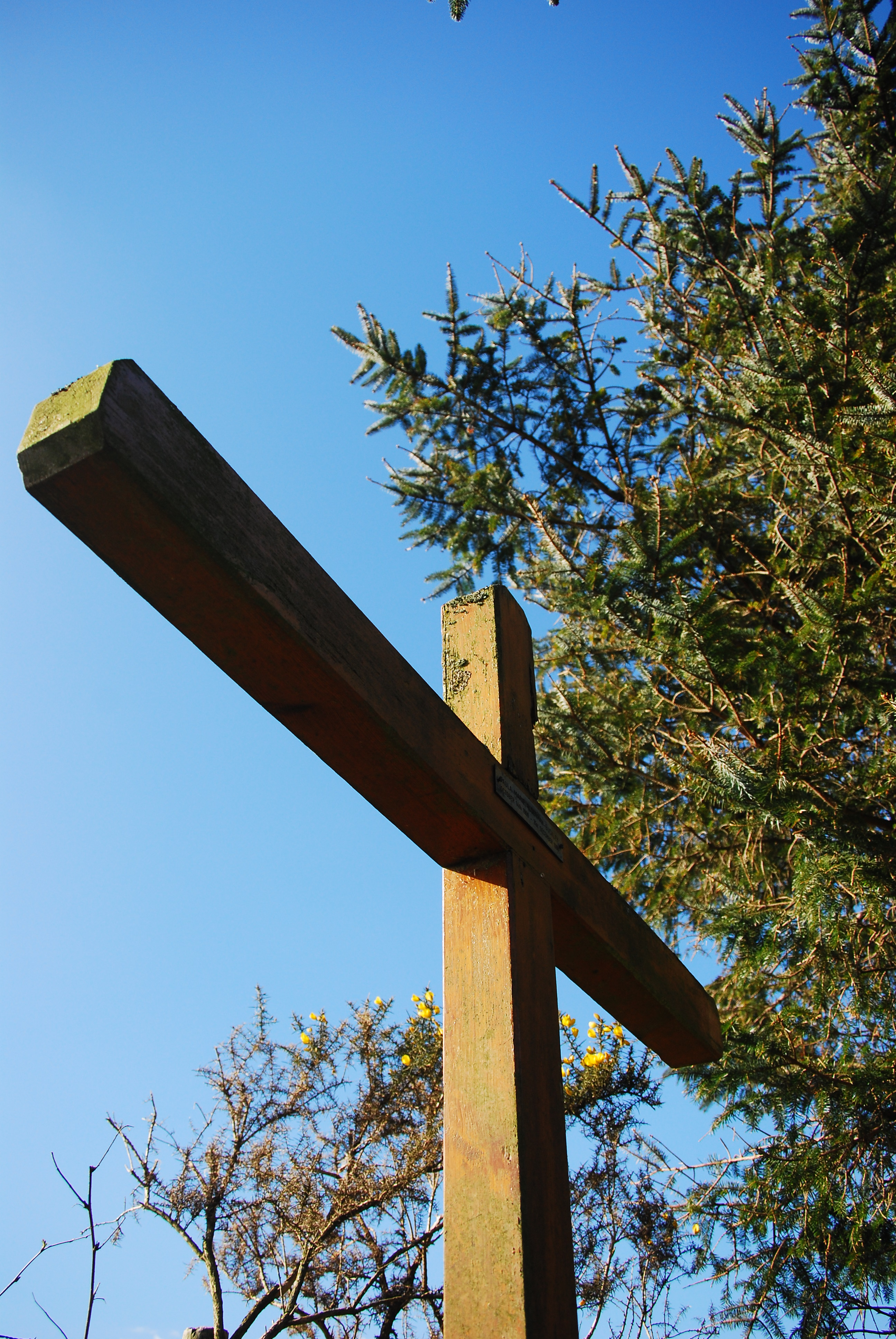 Memorial Cross (Paula Marie Alderman-one of the victims of the Lockerbie disaster)